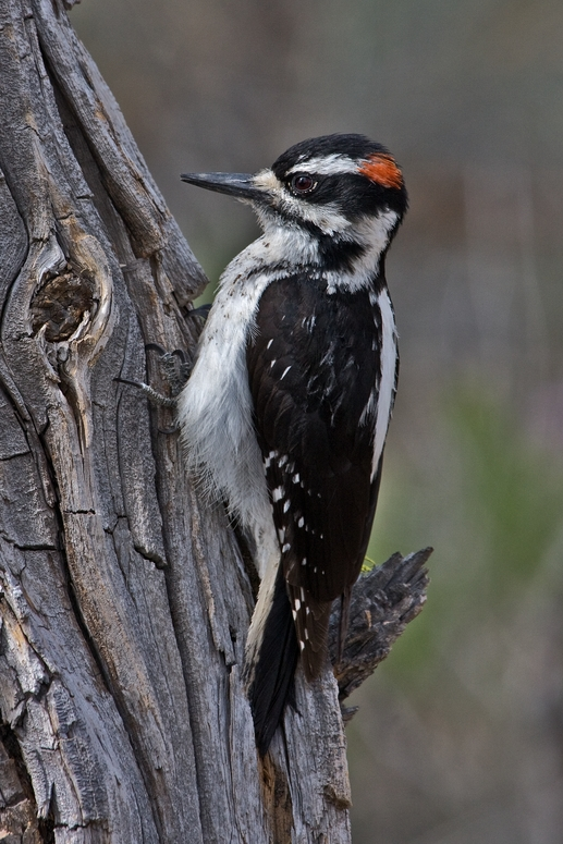 Hairy Woodpecker (Male), Cabin Lake Viewing Blinds, Deschutes National Forest, Near Fort Rock, Oregon